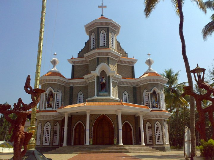 St Joseph's Church,Kodussery,Vattaparambu,India. Diocese : Ernakulam-Angamaly Rite : Syro Malabar Catholic Church